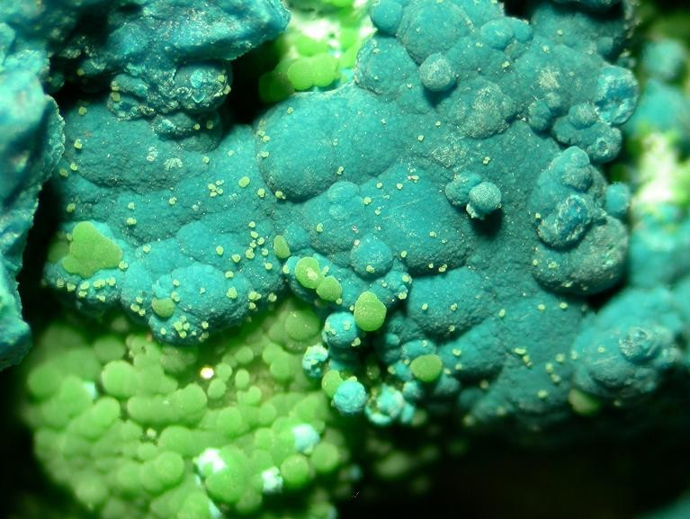 Arhbarite with light green Conichalcite (picture width: 5 mm) Locality: El Guanaco Mine, Taltal, Chile